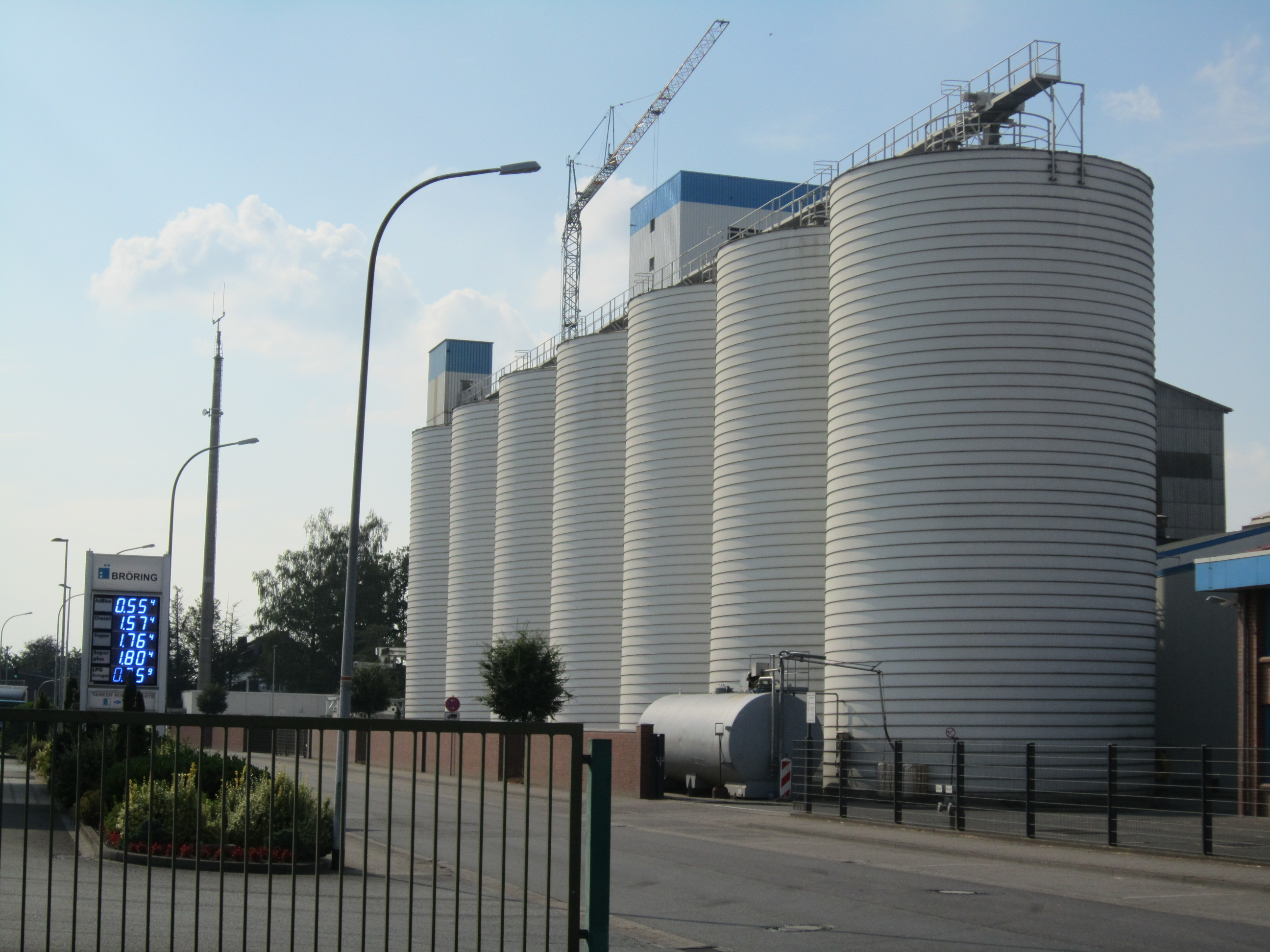 Bröring fodder-mixing facility in Dinklage